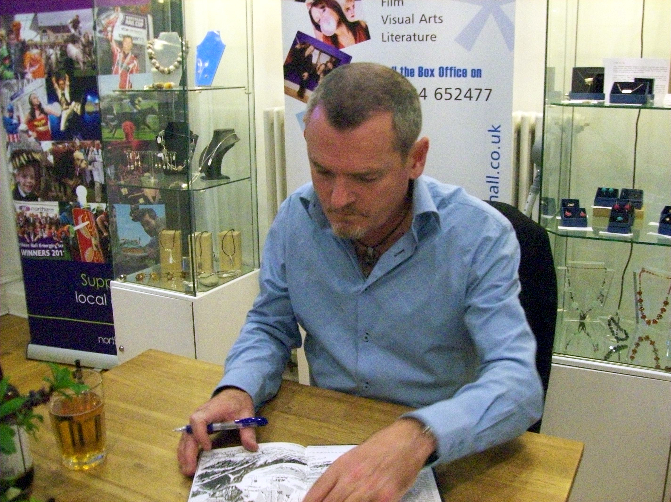 Here is Joe Simpson signing my copy of Touching The Void, unquestionably the best written, most gripping, tale of survival against cruel pain and long, long odds. I now have four of Joe's books but Touching The Void is my only signed copy. Sadly although its an early edition - a second imprint of 1988 it has little value when compared with a first edition which I looked up before coming to Hexham and a few are on offer at over £1,000. I mentioned this to Joe and hoped he had a basement full of them, he told me he got six copies from the publisher and gave them all away. Amazing to learn that neither he nor the publisher thought it would sell beyond the incestuous world of mountaineering! The first print run was a mere 1,800 copies - hence their current high value. Wonderfully the book has never been out of print and worldwide sales now exceed 2,500,000 copies well done Joe. In this world its what counts, in the bank - large amounts... His latest book being promoted at the Hexham Book Festival is a novel called: The Sound of Gravity, the synaesthesia in the title gives a clue to the florid overblown intensity of its central protagonist's described mindset. Its perhaps futile to compare a fictional work with the hard craft of mountaineering that Joe vividly chronicles in The Void, This Game of Ghosts and The Beckoning Silence etc. They spring from differing genre-pools but I've got these titles and can't help but make an unfavourable comparison. He is a great guy came on-stage with the help of a walking-stick and made light of the physical injuries sustained over his long climbing career, as he said,its over and he survived at the top of the game, many did not. An ace climber, a good man and an excellent writer notwithstanding my carping about his novel. Salute him, I do, I do.